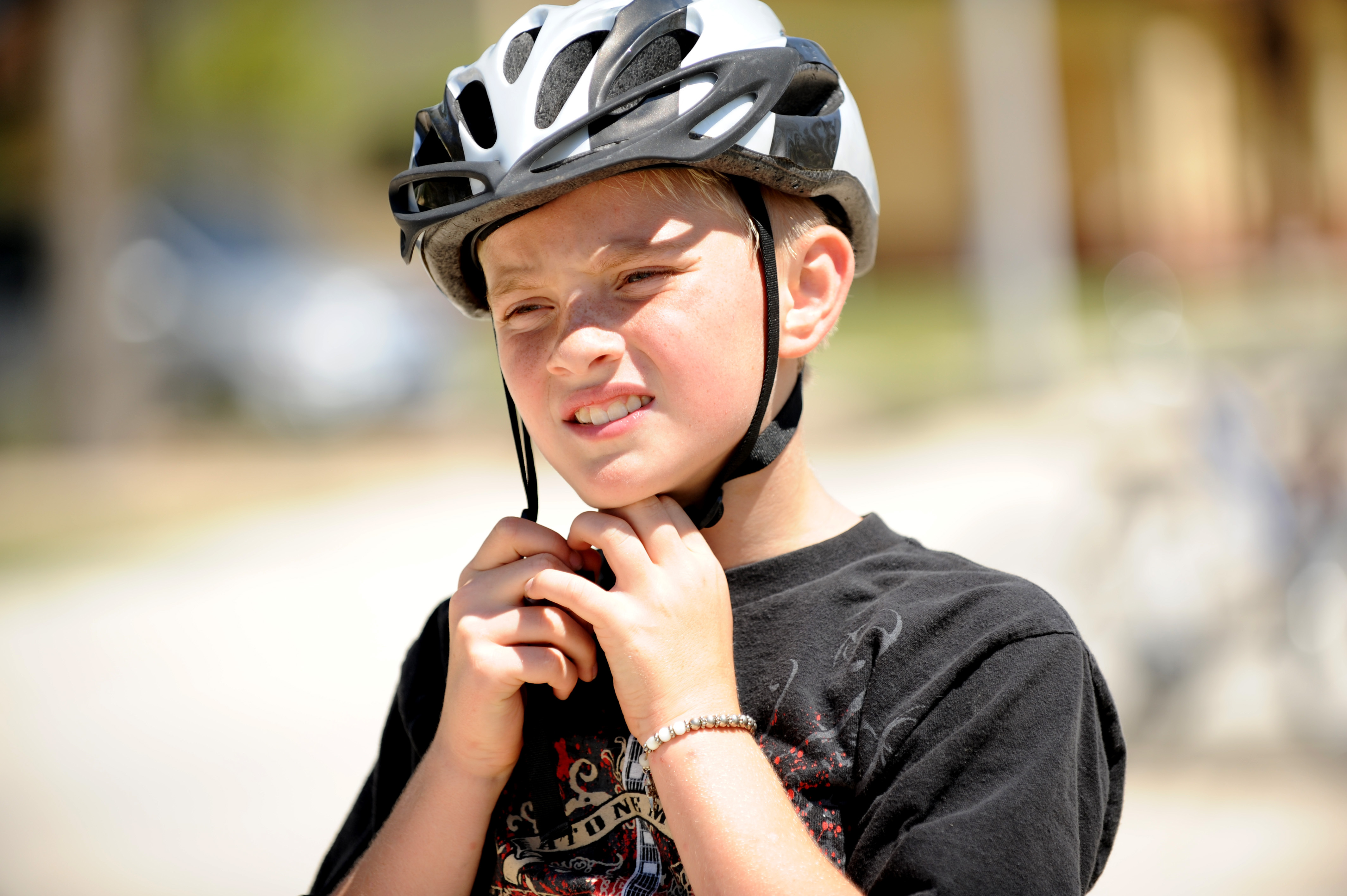 A boy secures his helmet during the Bicycle Safety Rodeo June 9, 2012, at Incirlik Air Base, Turkey. The annual event is designed to inform riders of all ages about proper safety techniques to use while riding a bicycle. Unit: 39th Air Base Wing